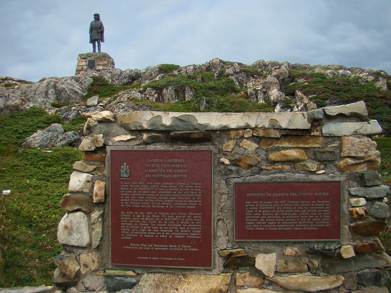 Monument to John Cabot's Landfall in the New World in 1497, Cape Bonavista, Bonavista Peninsula, Eastern Newfoundland, Canada.